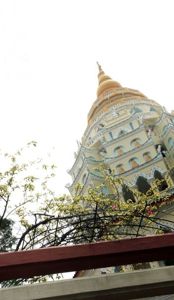 Day view of Kek Lok Si Temple Penang, taken year 2009.